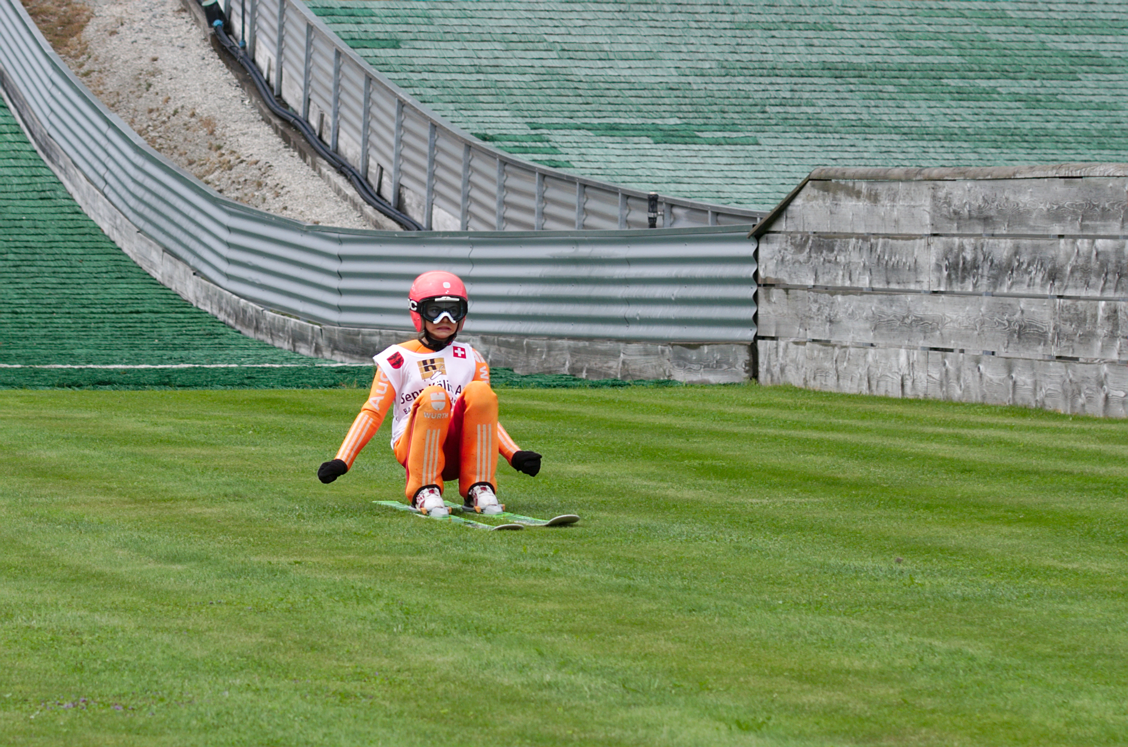 FIS Sommer Grand Prix 2014. A jumper in the youth competition lands on the grass.